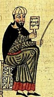 Grigor Khlatetsi from miniature of 1419